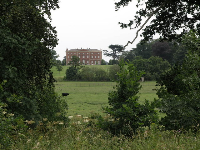 Hall Through the Trees. Serlby Hall stands high above the surrounding parkland. The River Ryton flows just behind the trees in the foreground.